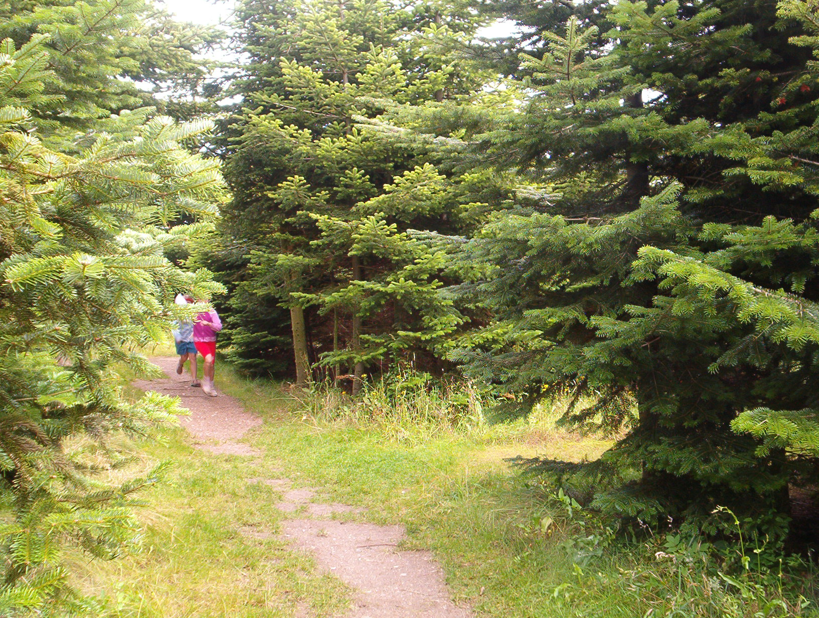 The world's largest maze, on Samsø Source: Photo taken by Bruger:Palnatoke